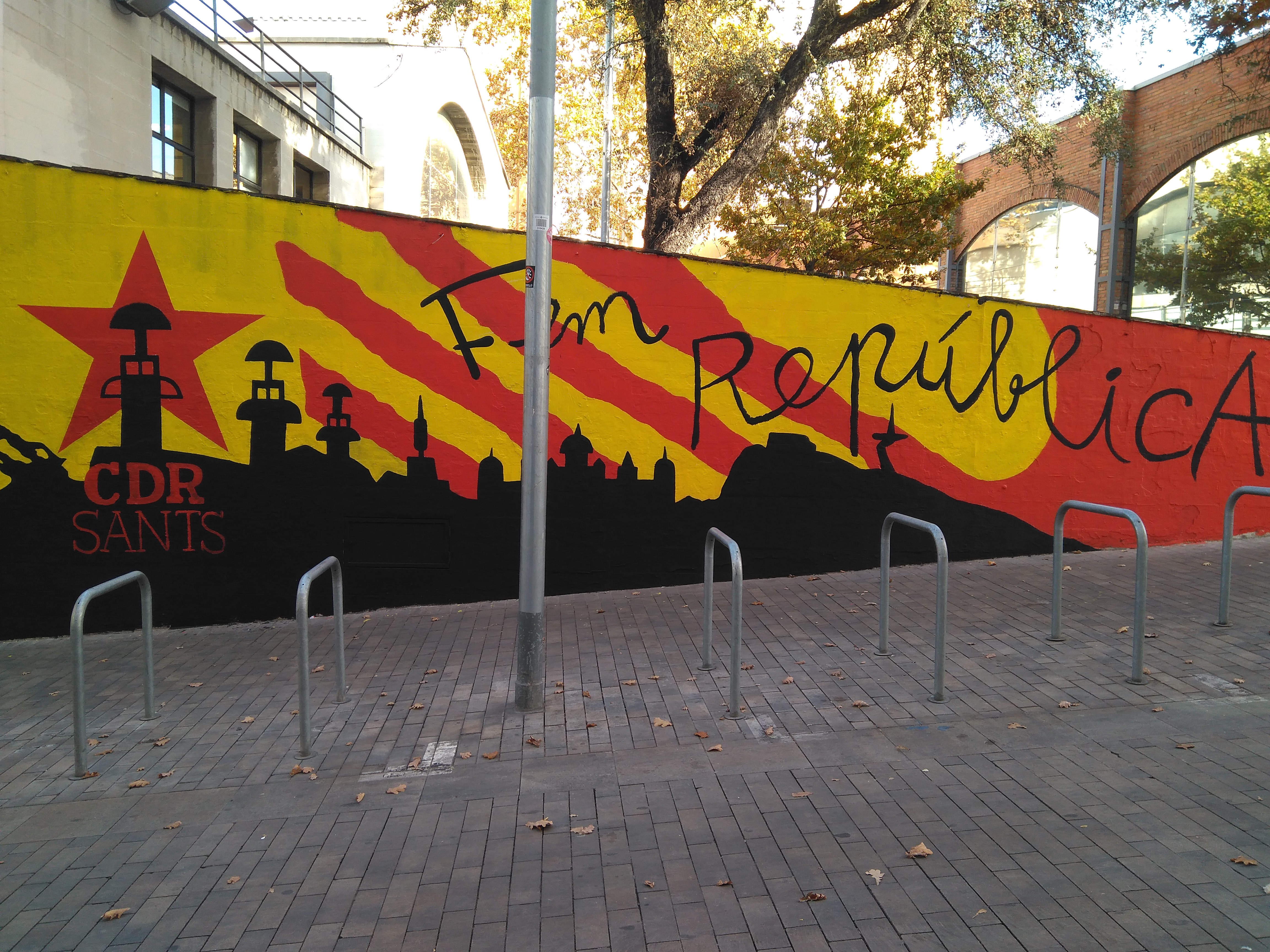 Wall painted in Sants that refers to the CDR of the district of Sants with the writing «Fem República».